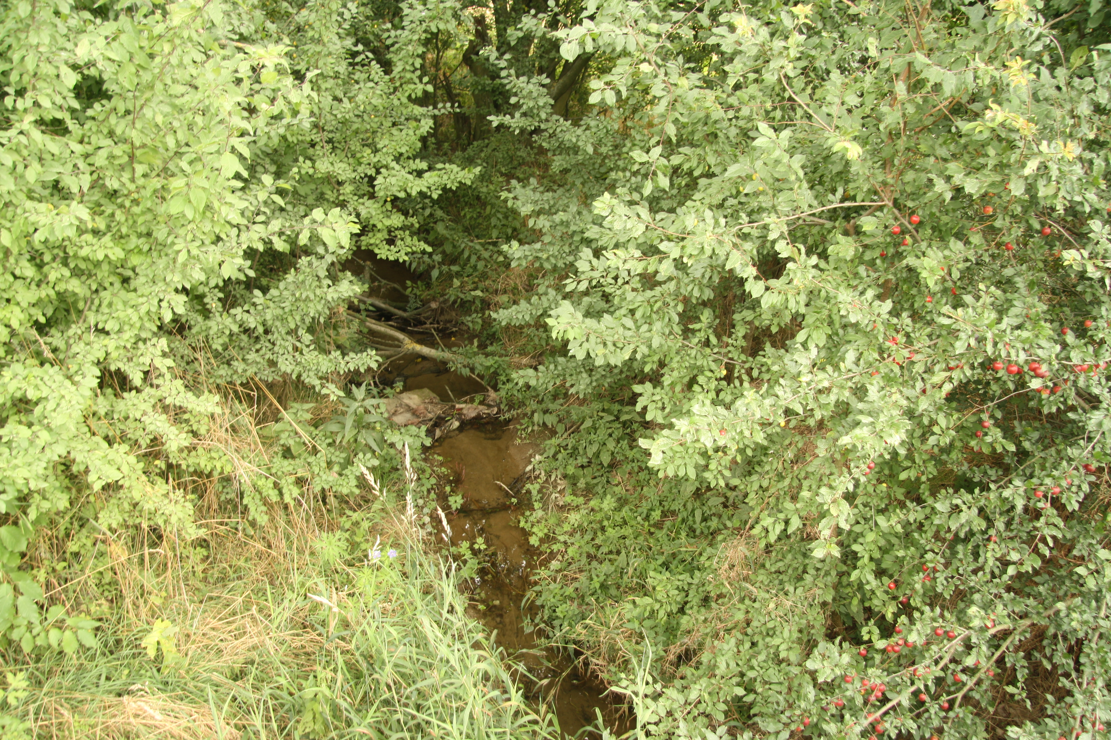 Vranín stream near Litohoř, Třebíč District.